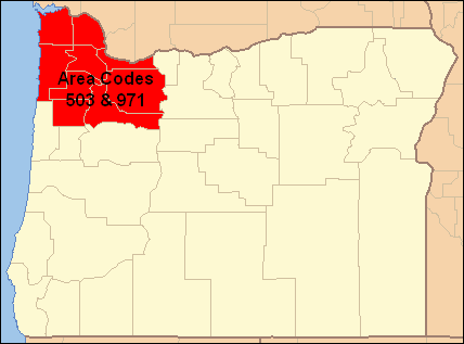 Map shows Oregon Area Codes 503 and 971